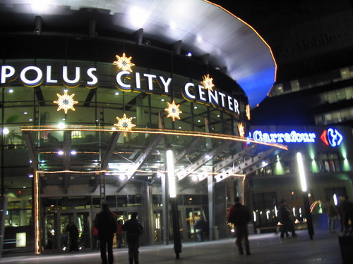 Shopping park Polus City Center, Bratislava - Nove Mesto, Slovak Republic, European Union